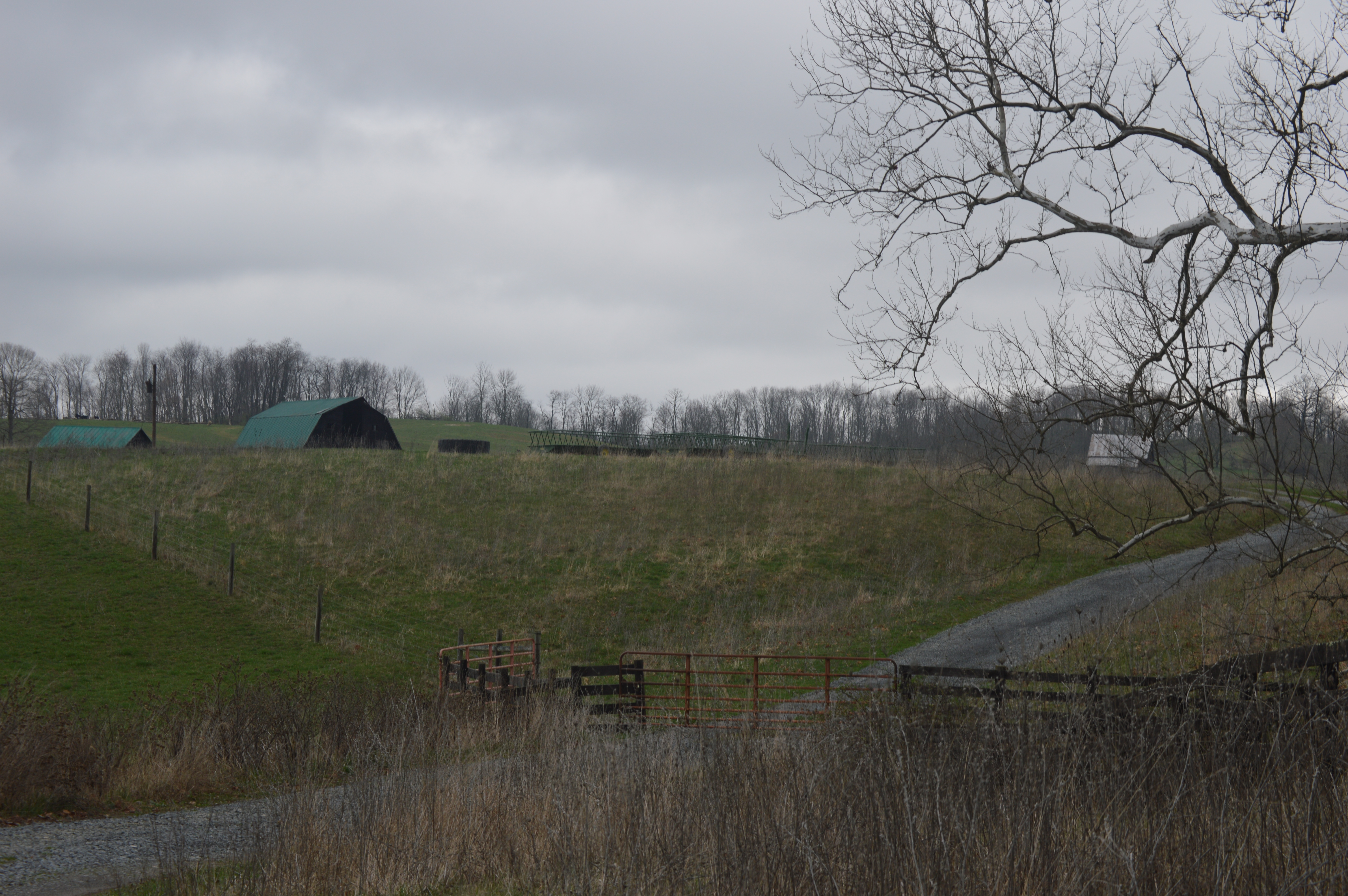 Distant view of buildings at the William Gaston Caperton, Jr., farmstead, located along West Virginia Route 3 east of Union in Monroe County, West Virginia, United States. The farmstead is listed on the National Register of Historic Places.